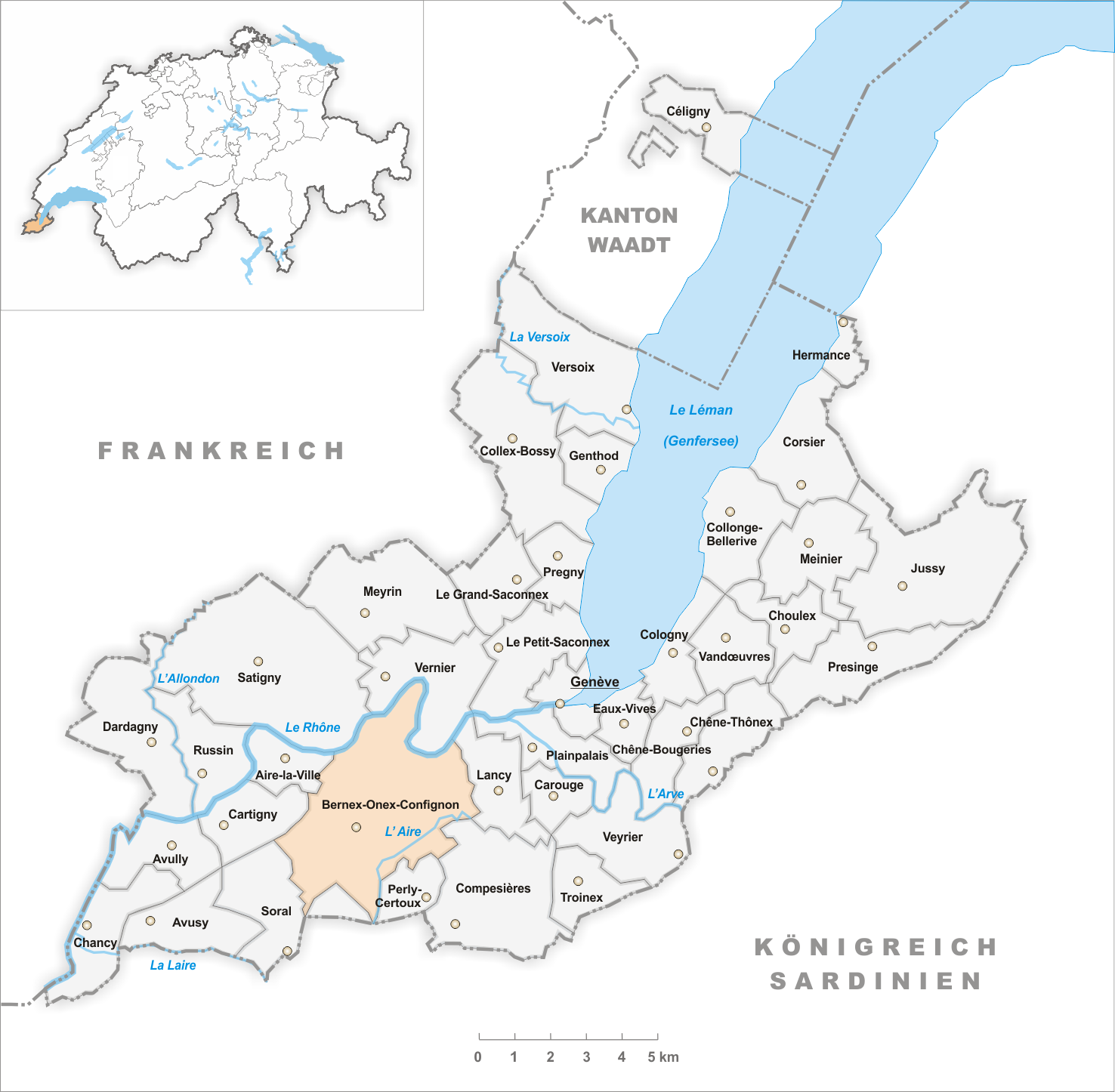 Municipalities in the canton of Geneva until 1849